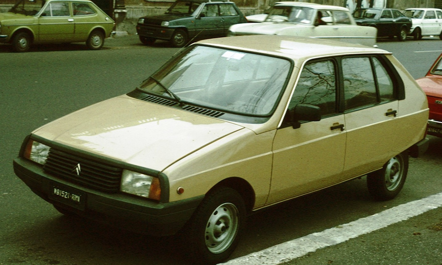 Citroen Visa front three quarters view from and photographed in Rome. The car driving past in the background is an Opel Kadett A, over 15 years old and already rare at this time due to an above average propensity to corrode.